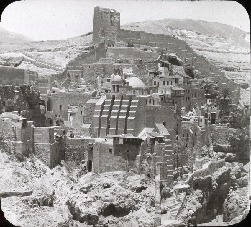 Image Title: The Lonely Convent of Mar Saba, Wilderness of Judea Image Description from historic lecture booklet: "Mar Saba is situated in the wilderness about midway between Bethlehem and the shore of the Dead Sea. It can be reached by paths from Bethlehem or Jerusalem on the west or from the Dead Sea on the east. The buildings are clinging at the barren rocks and precipitous cliffs like a wasp's nest, and from its walls one could drop a stone almost a thousand feet into the somber depths of a chasm." Original Format: Lantern slides Original Collection: Visual Instruction Department Lantern Slides Item Number: P217:set 010 007 Restrictions: Permission to use must be obtained from the OSU Archives. Click here to view The Best of the Archives. Click here to view Oregon State University's other digital collections. We're happy for you to share this digital image within the spirit of The Commons; however, certain restrictions on high quality reproductions of the original physical version may apply. To read more about what “no known restrictions” means, please visit the OSU Archives website.